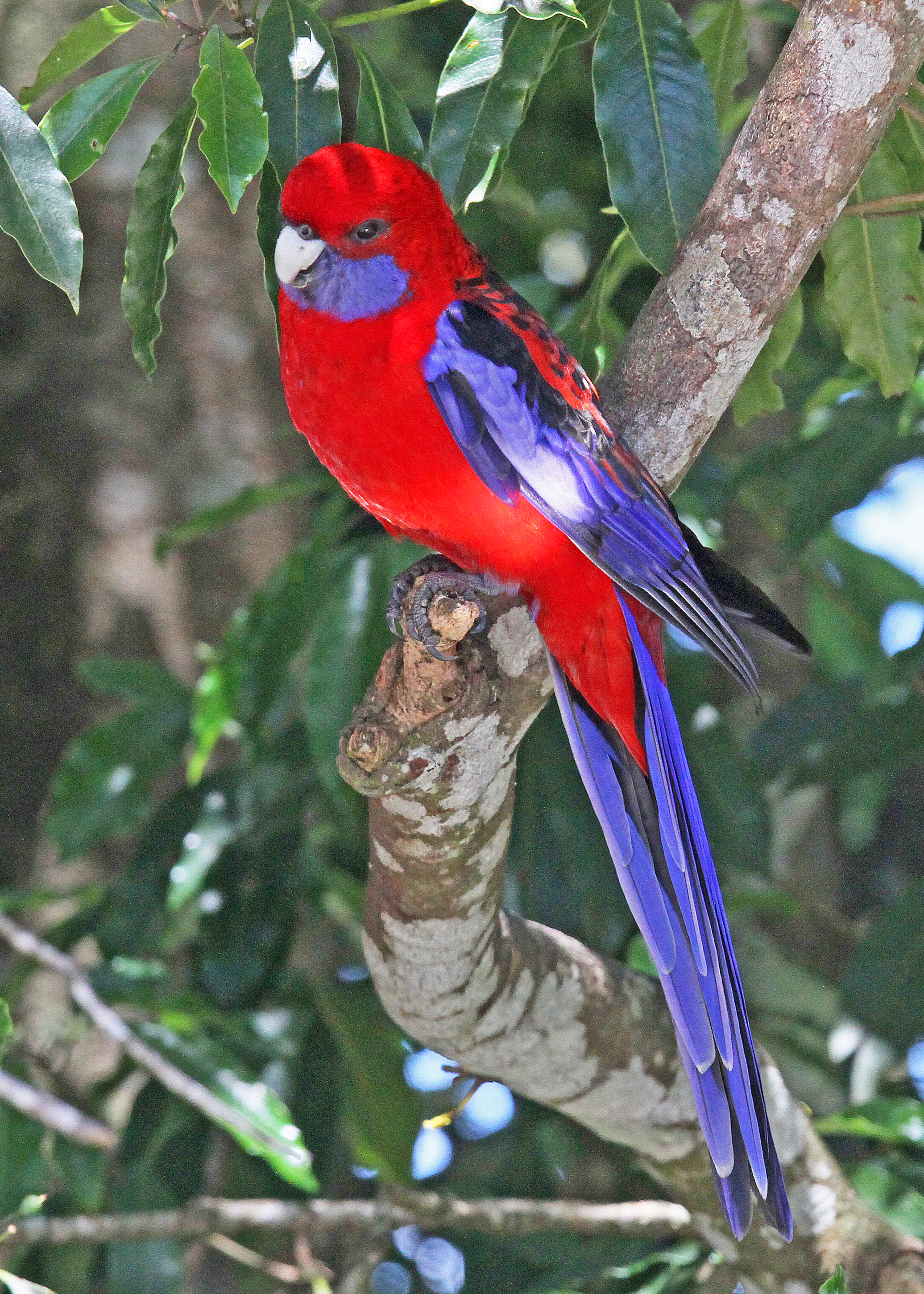 photo of Crimson Rosella